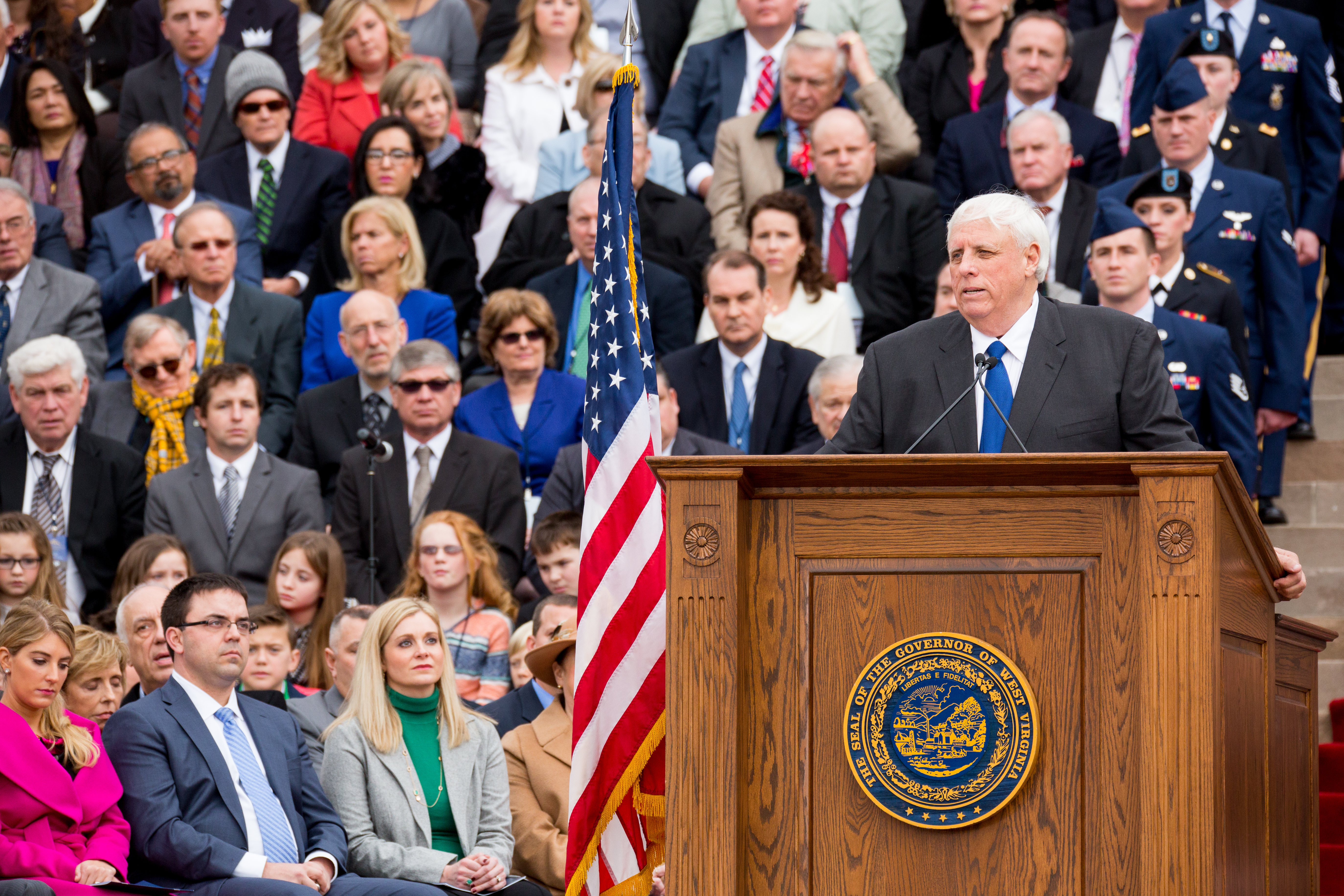 Photographs by Perry Bennett, Division of Culture and History